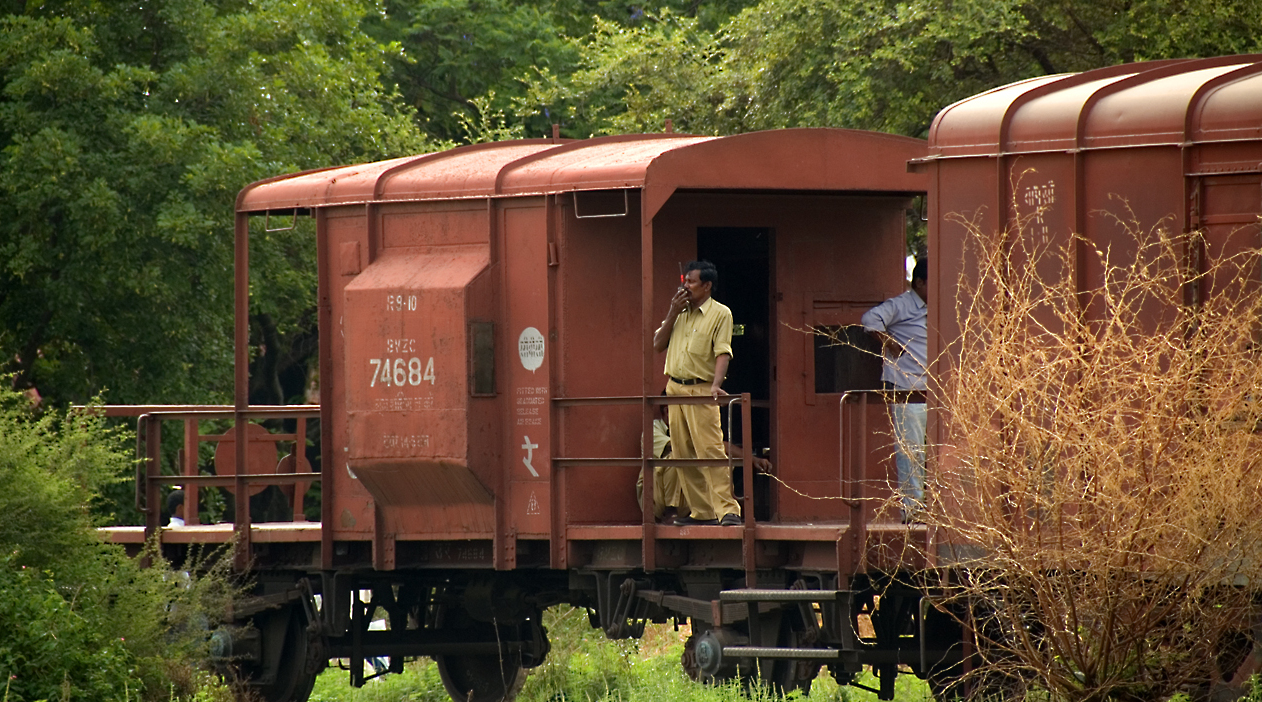 The conductor of the goods train talking on the walkie-talkie to the driver. I was at the station for about 3 hours and all that the goods train did was shunt up-and down between the station and the yard... must be fun! :)